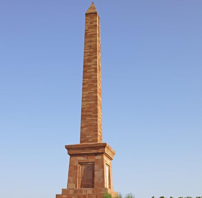 This monument is located in Multan, Pakistan.